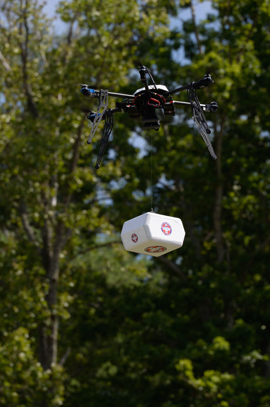 Image of Flirtey drone delivery